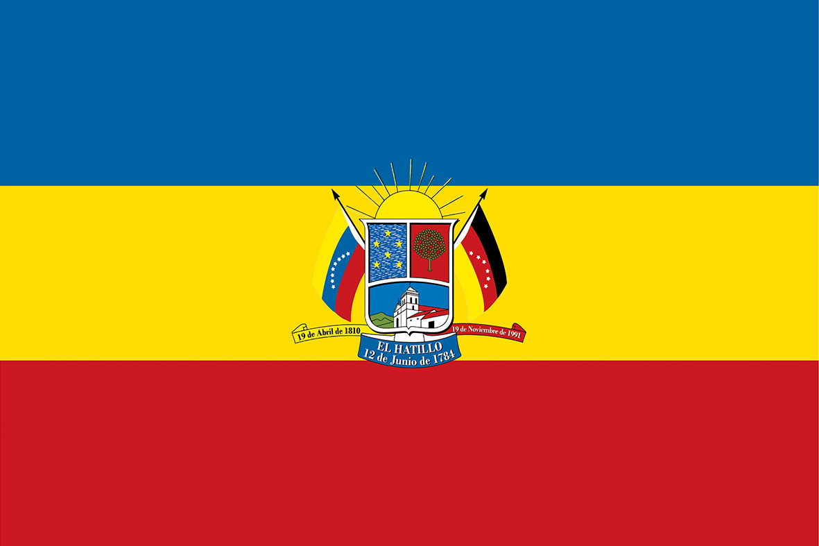 Flag of El Hatillo municipality, Miranda, Venezuela. From English Wikipedia: author: Enano275